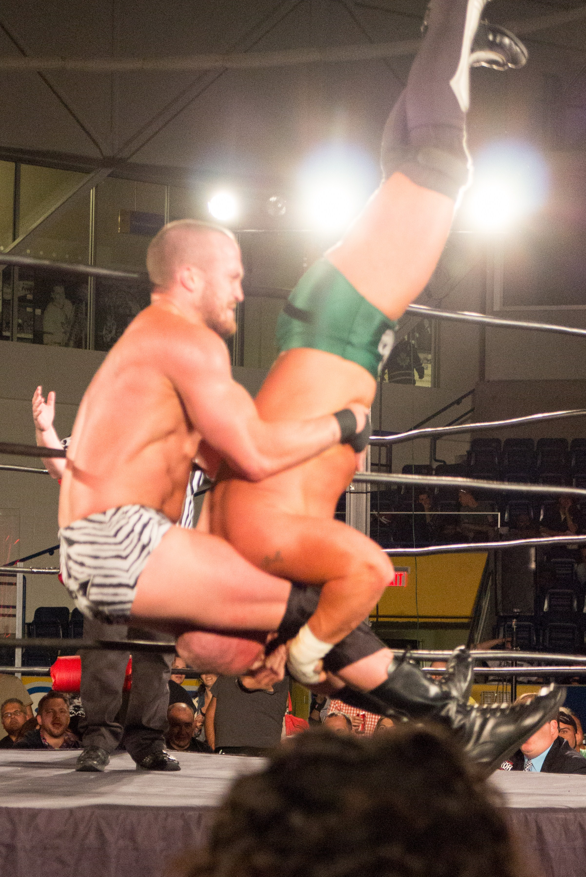 Mike Bennett (in tiger-striped trunks) executing a piledriver on BJ Whitmer at Ring of Honor's All Star Extravaganza in Toronto, ON. Whitmer was legitimately injured as a result of this move.